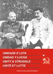 The cover of the first issue of "Unity & Struggle", theoretical organ of International Conference of Marxist-Leninist Parties and Organizations.